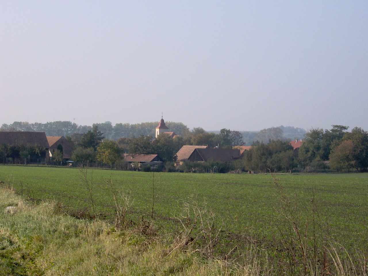 View of Ohnišťany from the south-east